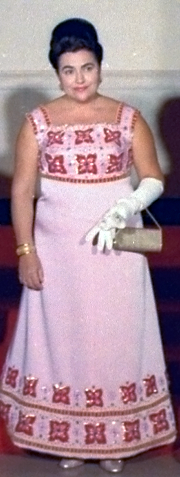 Jovanka Broz in 1971 during an official visit to the Nixon white house